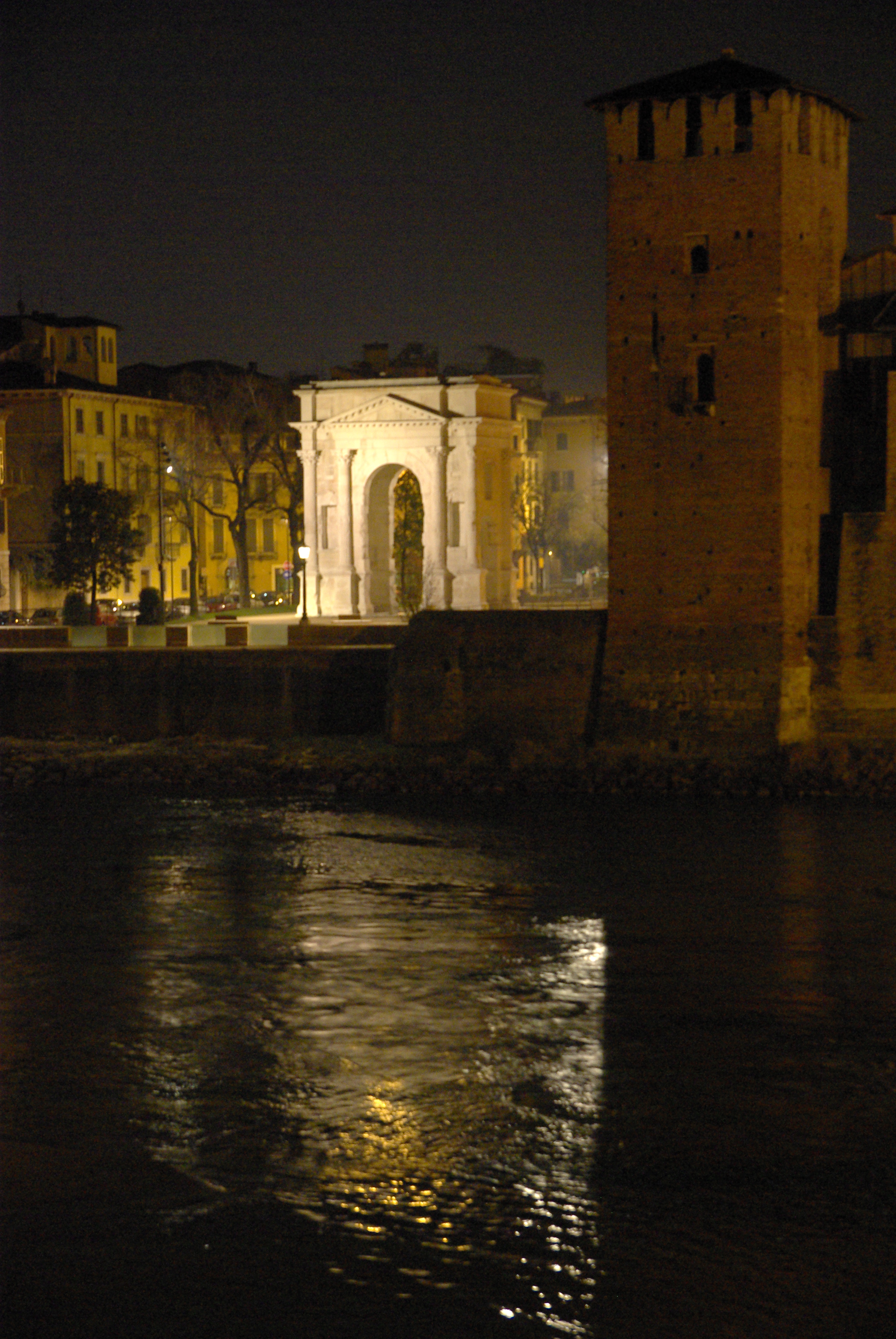 17dic2013 Verona night christmas photo Paolo Villa IMGP1531 (Arco Gavi, fiume or river Adige, Castelvecchio)